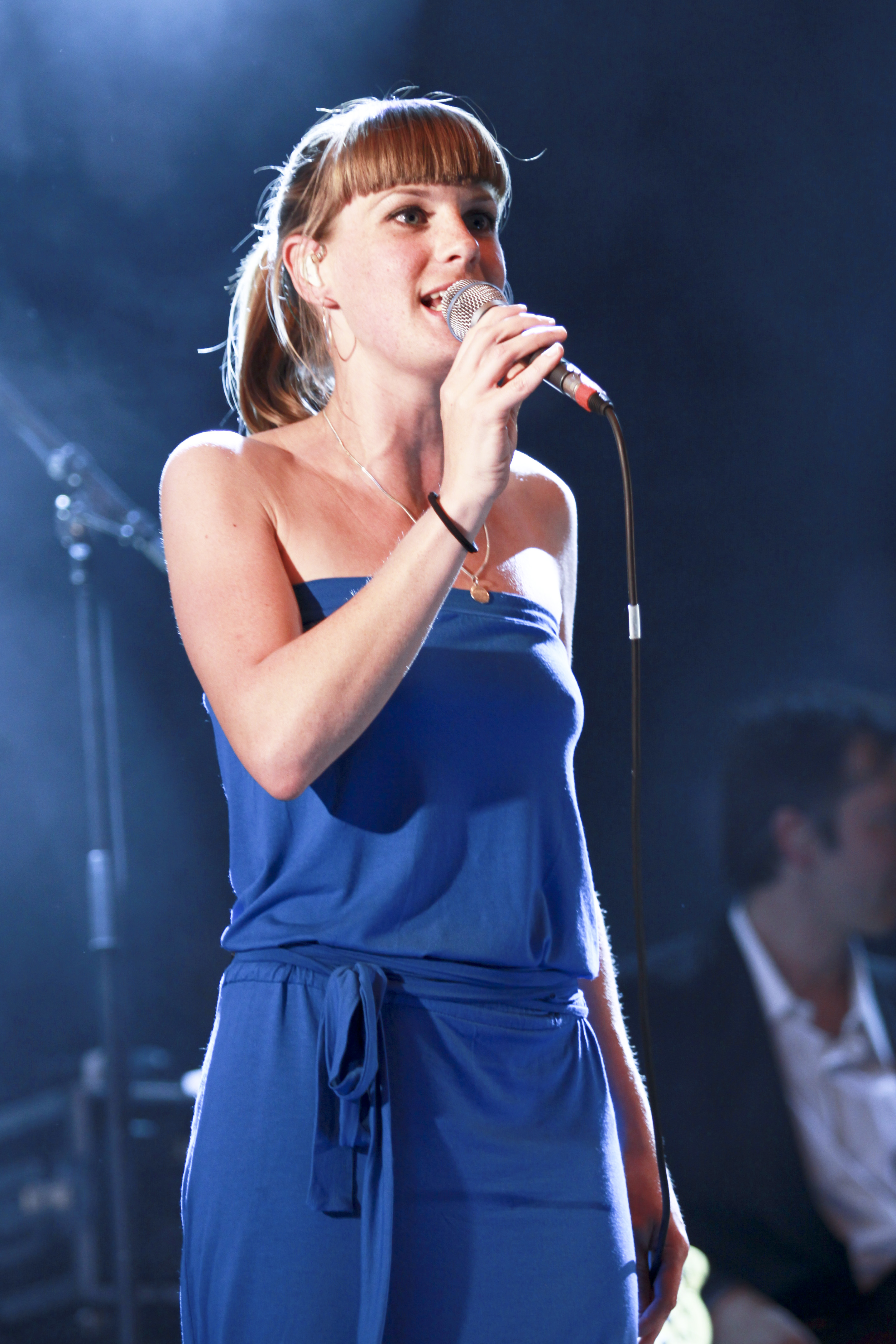 Isolde Lasoen during a performance with Daan at the St Baafs square in Ghent.